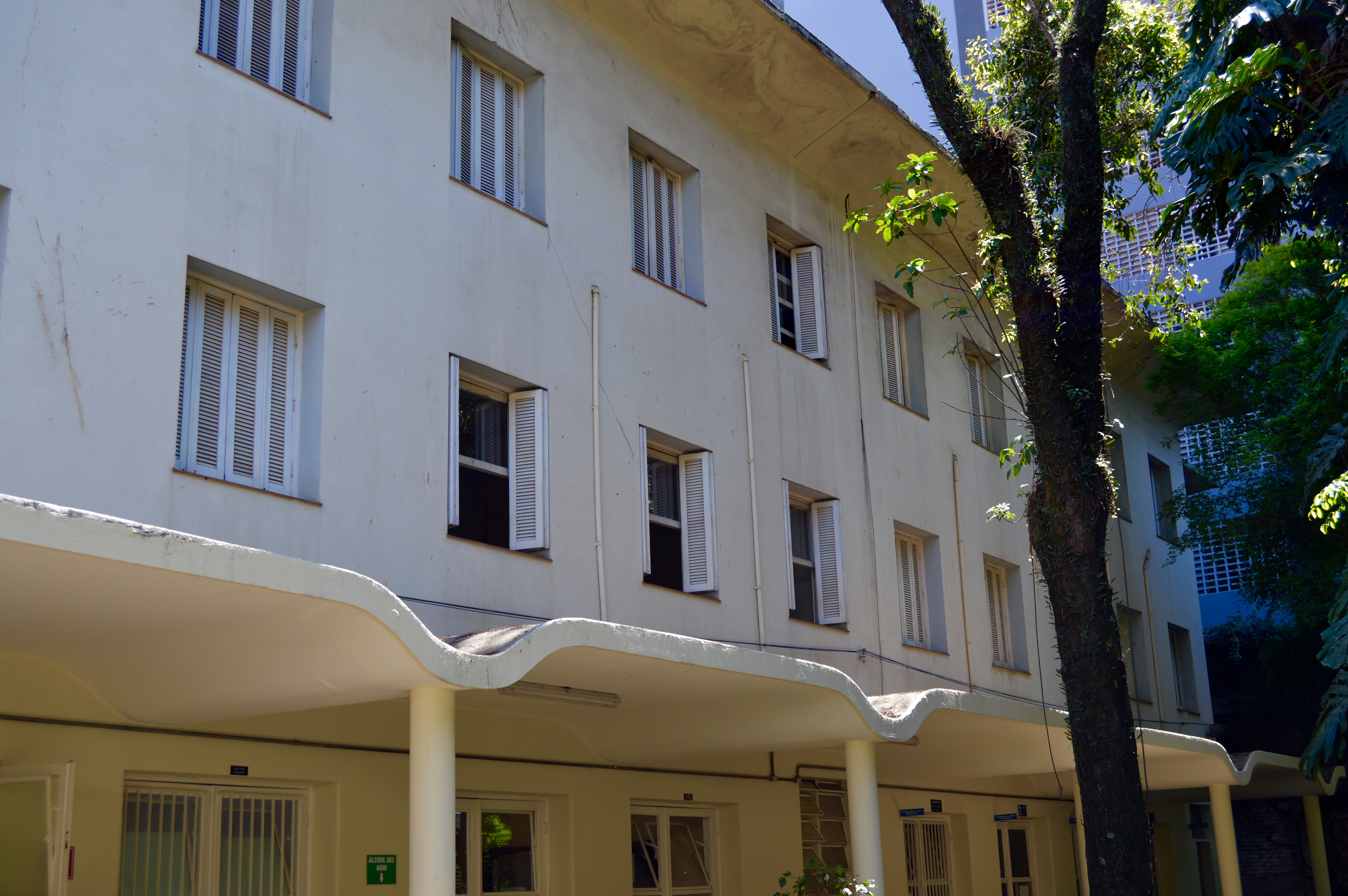 One of the buildings of the Sedes Sapientiae's front to the yard.